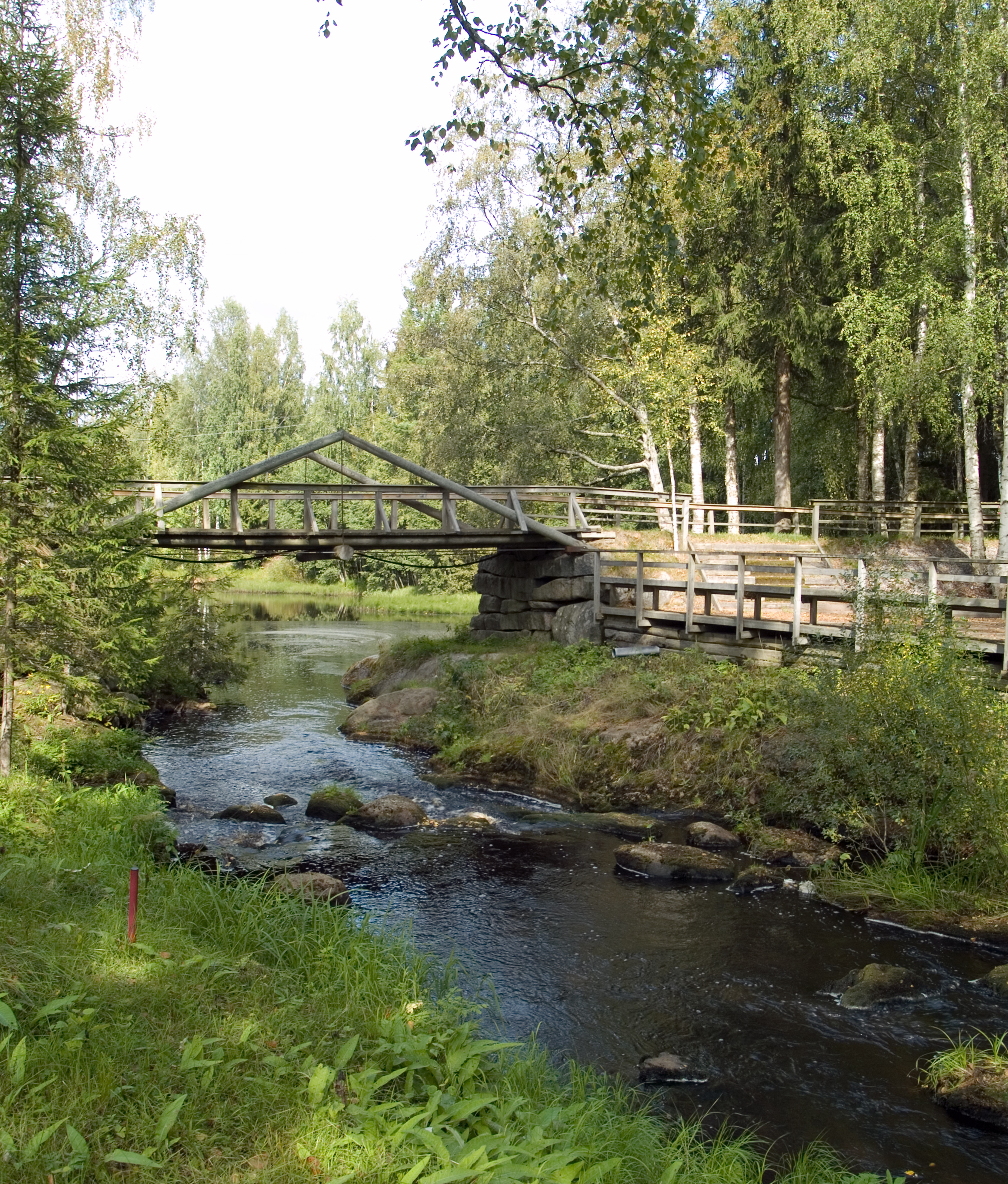 Nurmonjoki creek runs through Ruuhikoski golf course, August 2012.